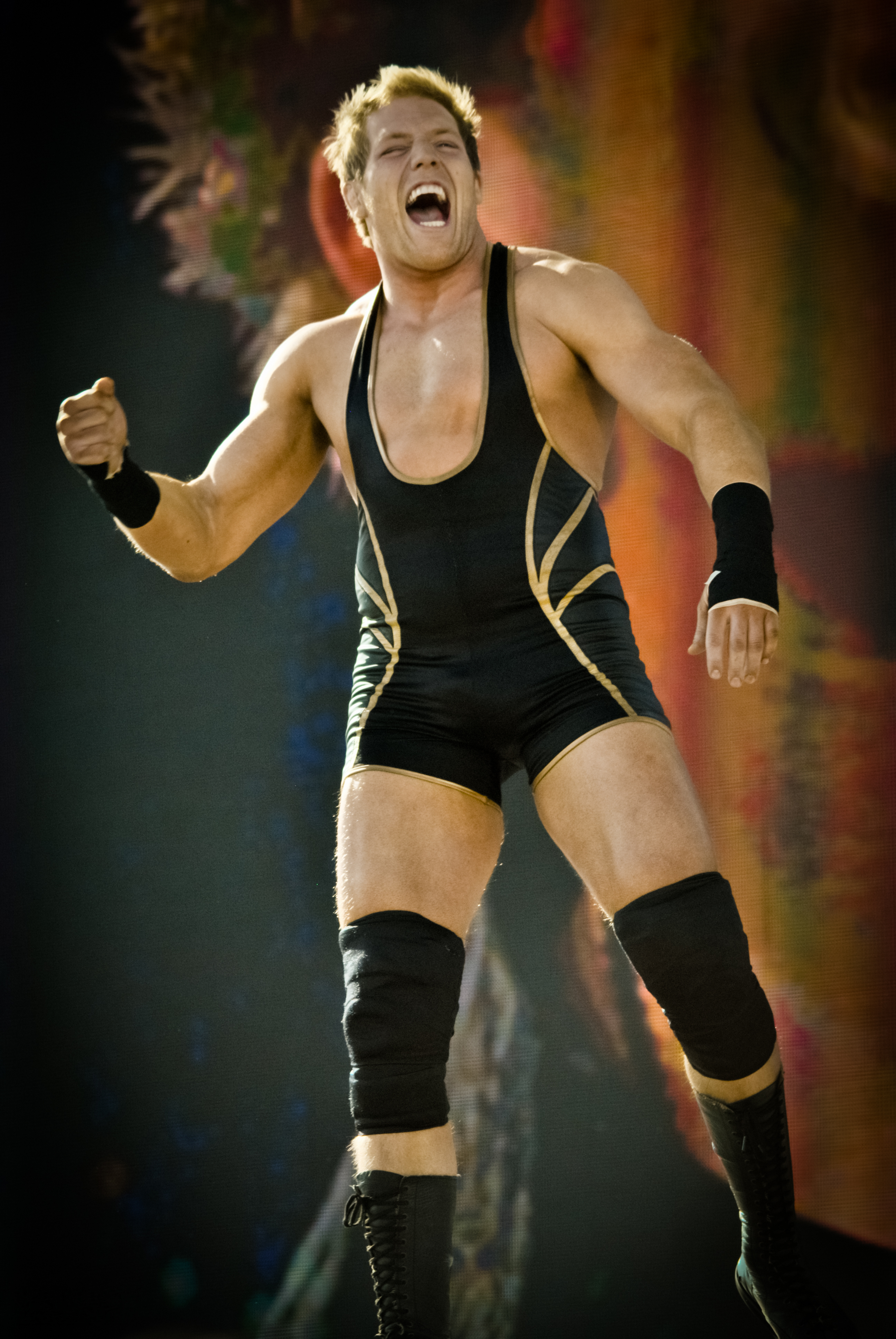 Jack Swagger at WWE's 2010 Tribute to the Troops event on December 11, 2010 in Fort Hood, Texas.